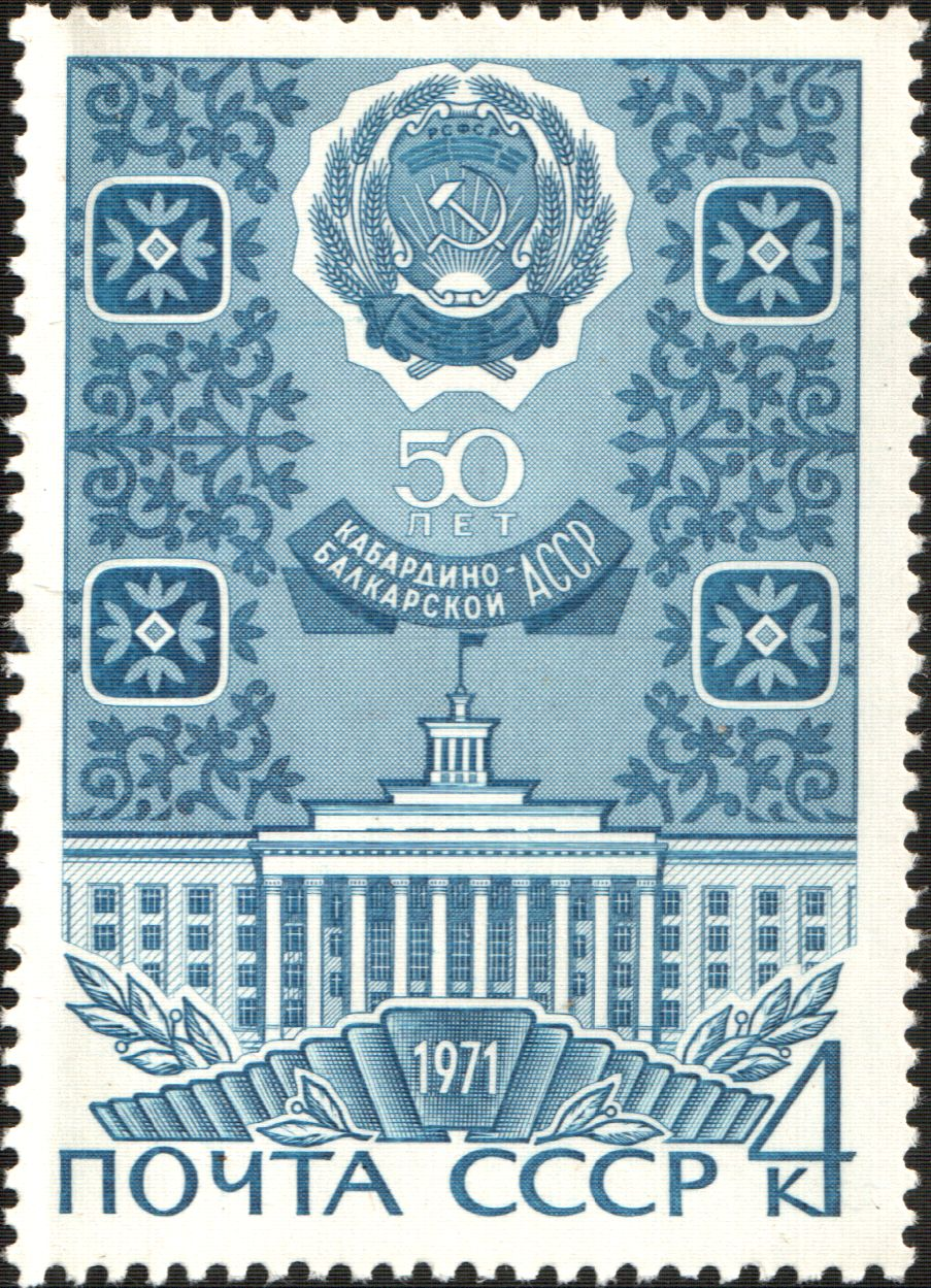 USSR stampː Kabardino-Balkar Autonomous Soviet Socialist Republic (Established on 1921.09.01). Seriesː 50th Anniversary of the Autonomous Republics of the Soviet Union